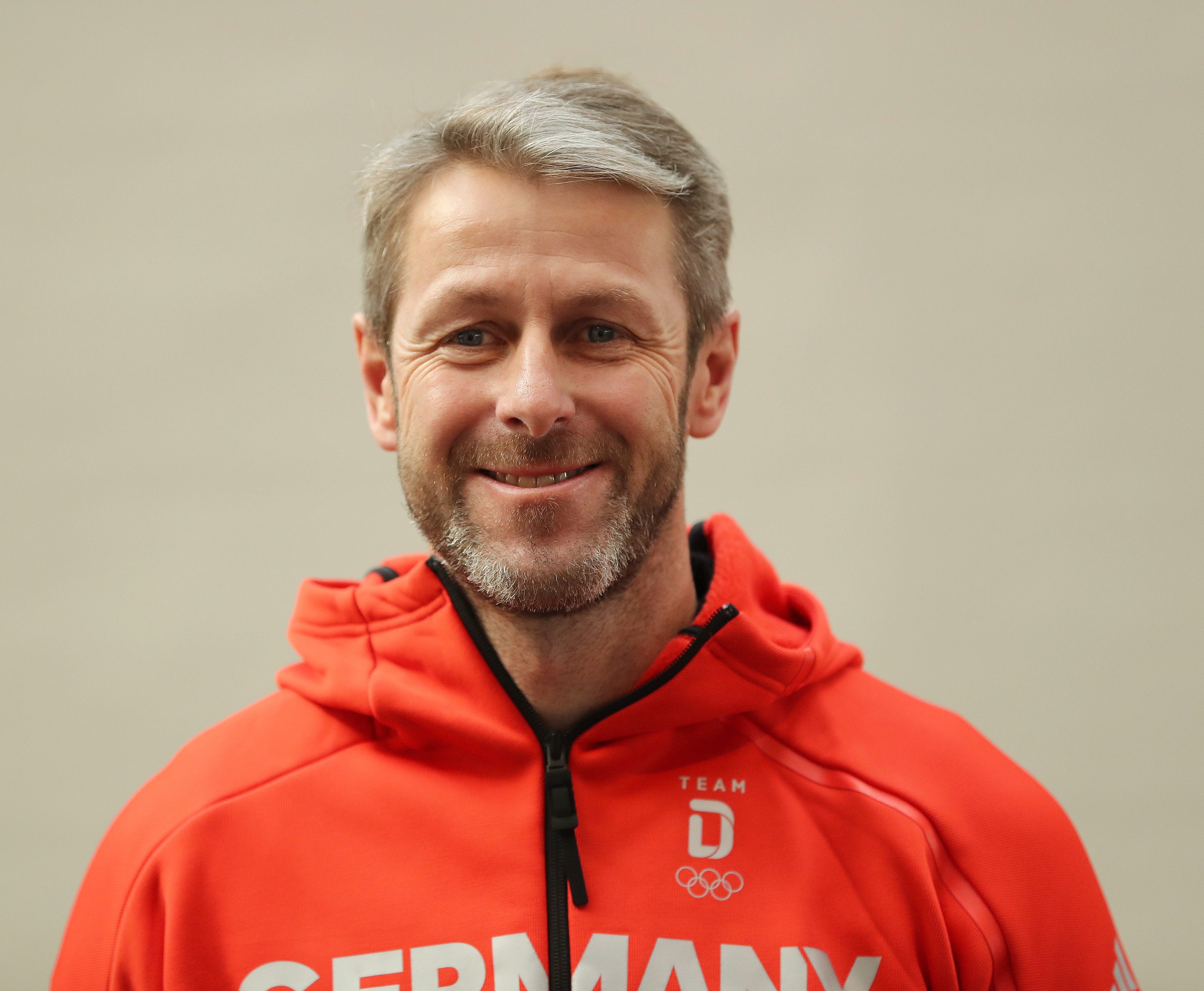 Portraits at the Clothing of the German team for Winter Olympics 2018 in Pyeonchang.